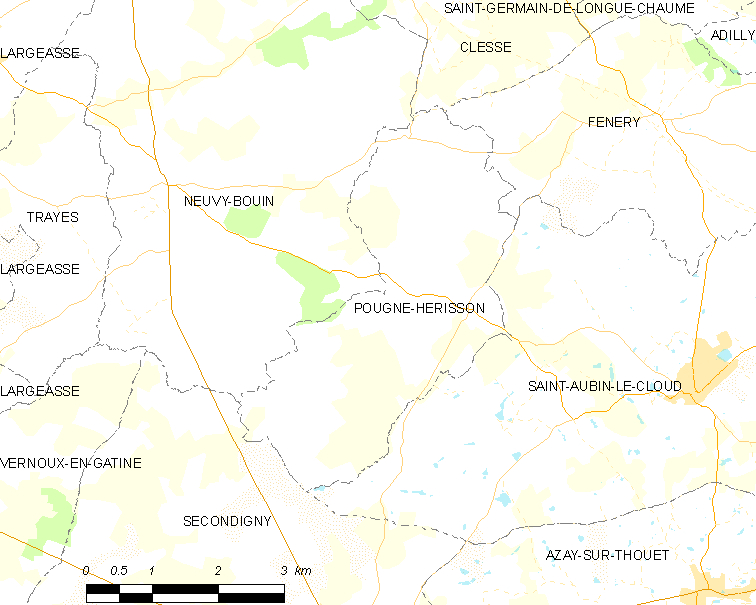 Map of French municipality Pougne-Hérisson